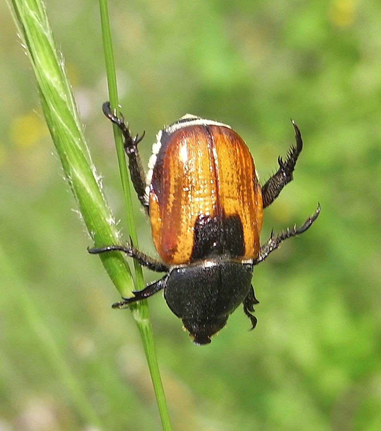 Anisoplia austriaca from Hungary at 2010-07-14 near PapaRicoh R8